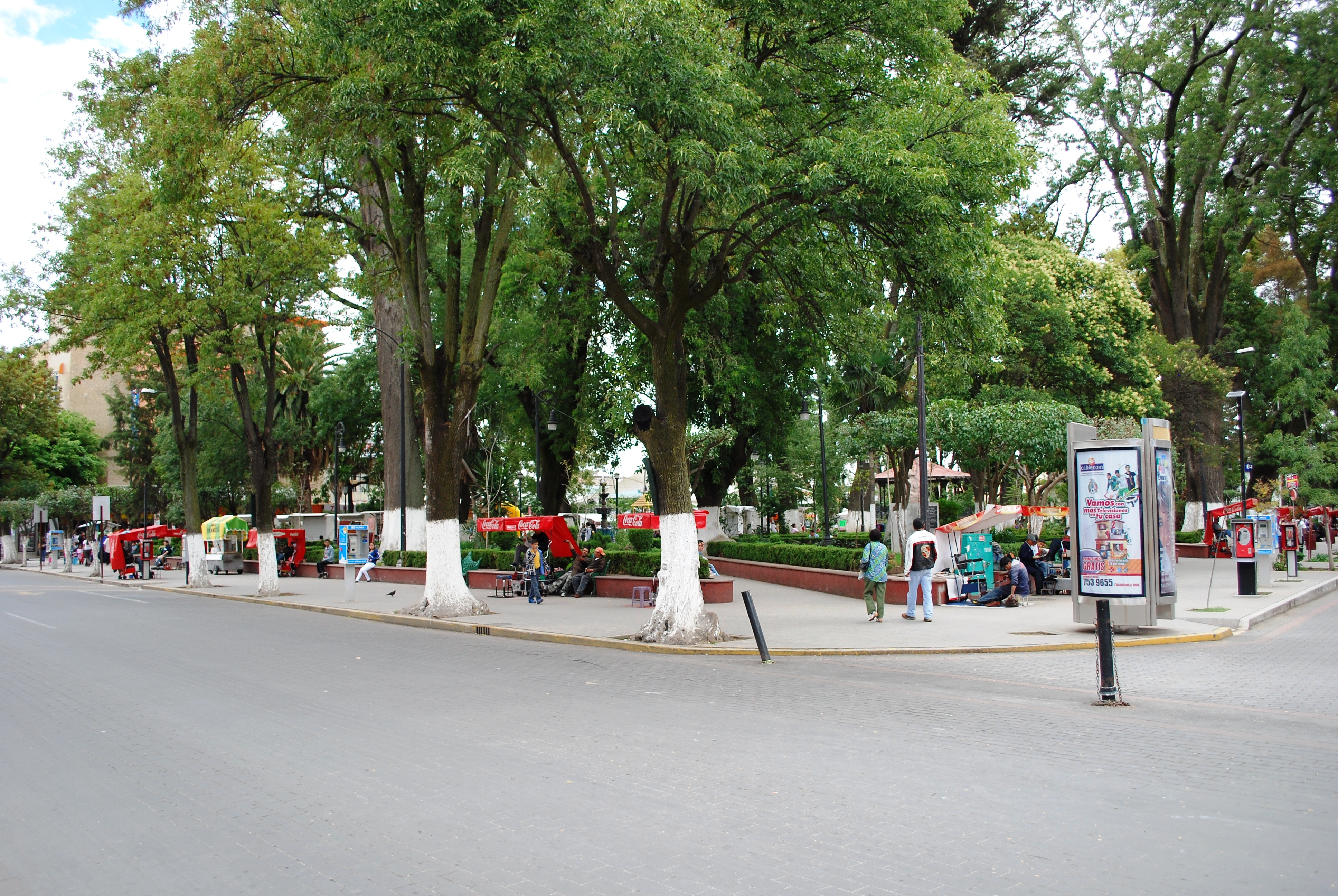 View of the Jardin La Floresta in downtown Tulancingo, Hidalgo, Mexico